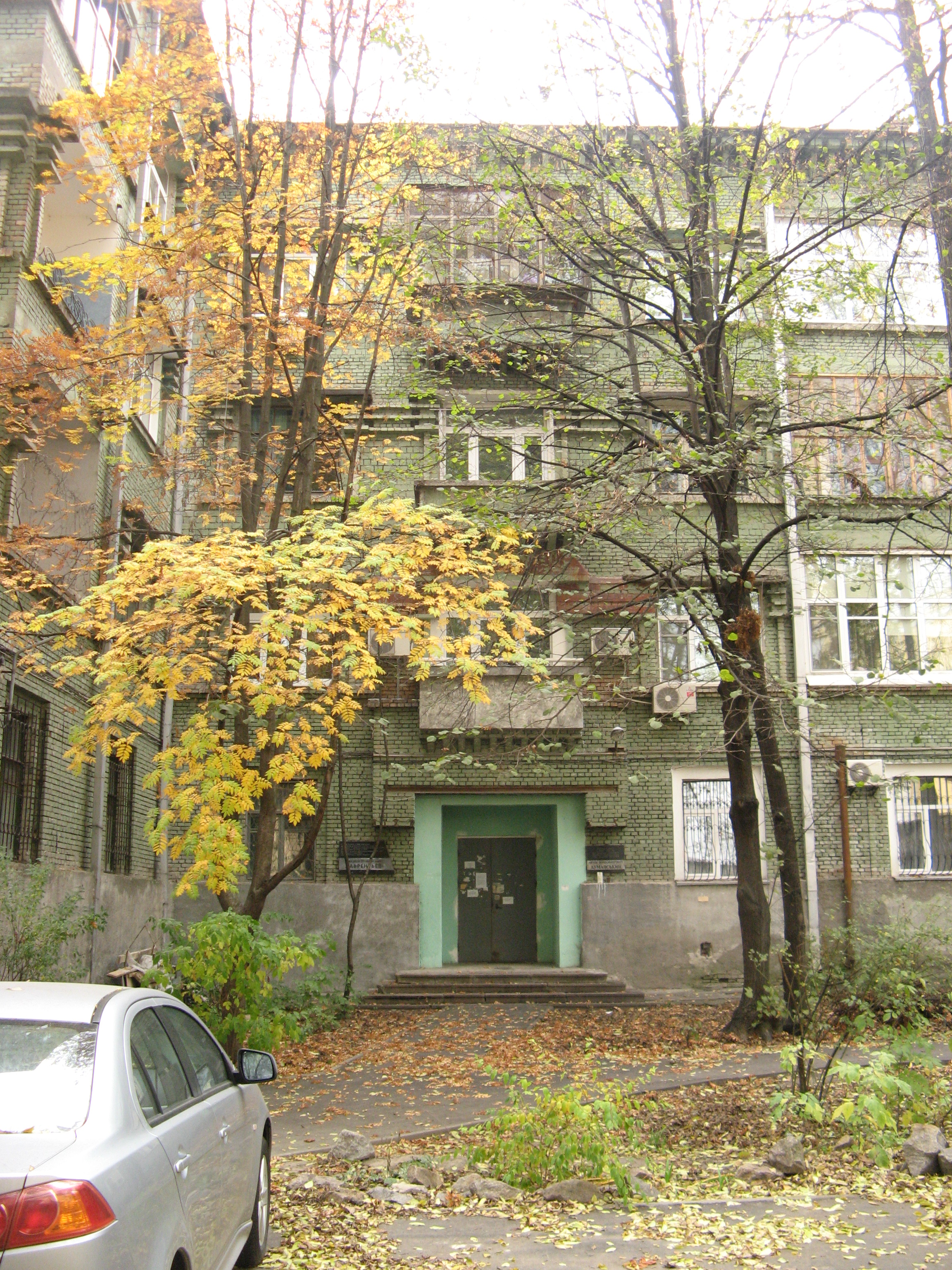 House in Kiev on the Kostelnaya street , in which lived and worked N.N. Dobrokhotov during his last years